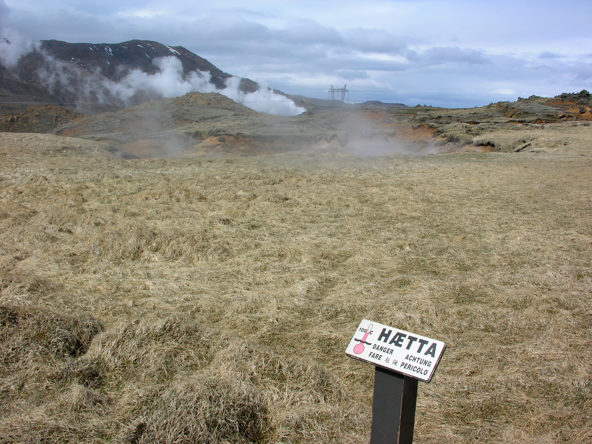 Iceland, Hengill